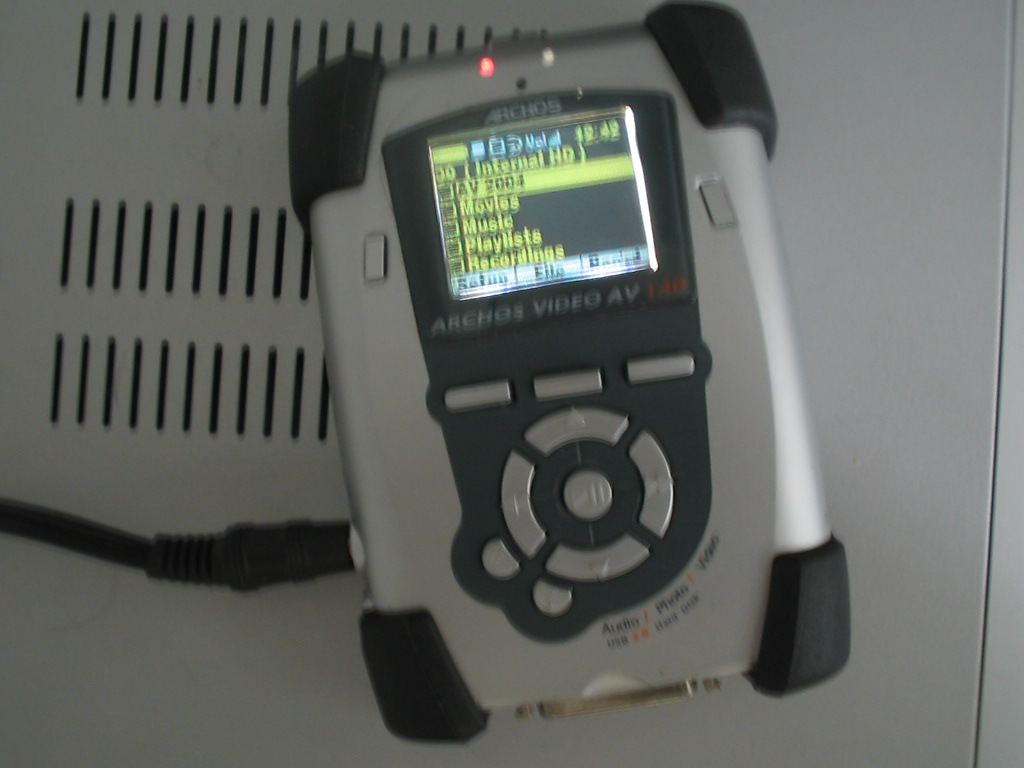 Archos Jukebox Multimedia. Archos Jukebox Multimedia, the first commercial portable media player, was also the first to be coined as an MP4 player.[1][2].